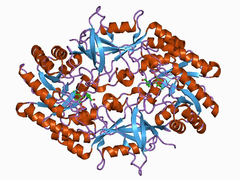 Cartoon representation of the molecular structure of protein registered with 1d7k code.